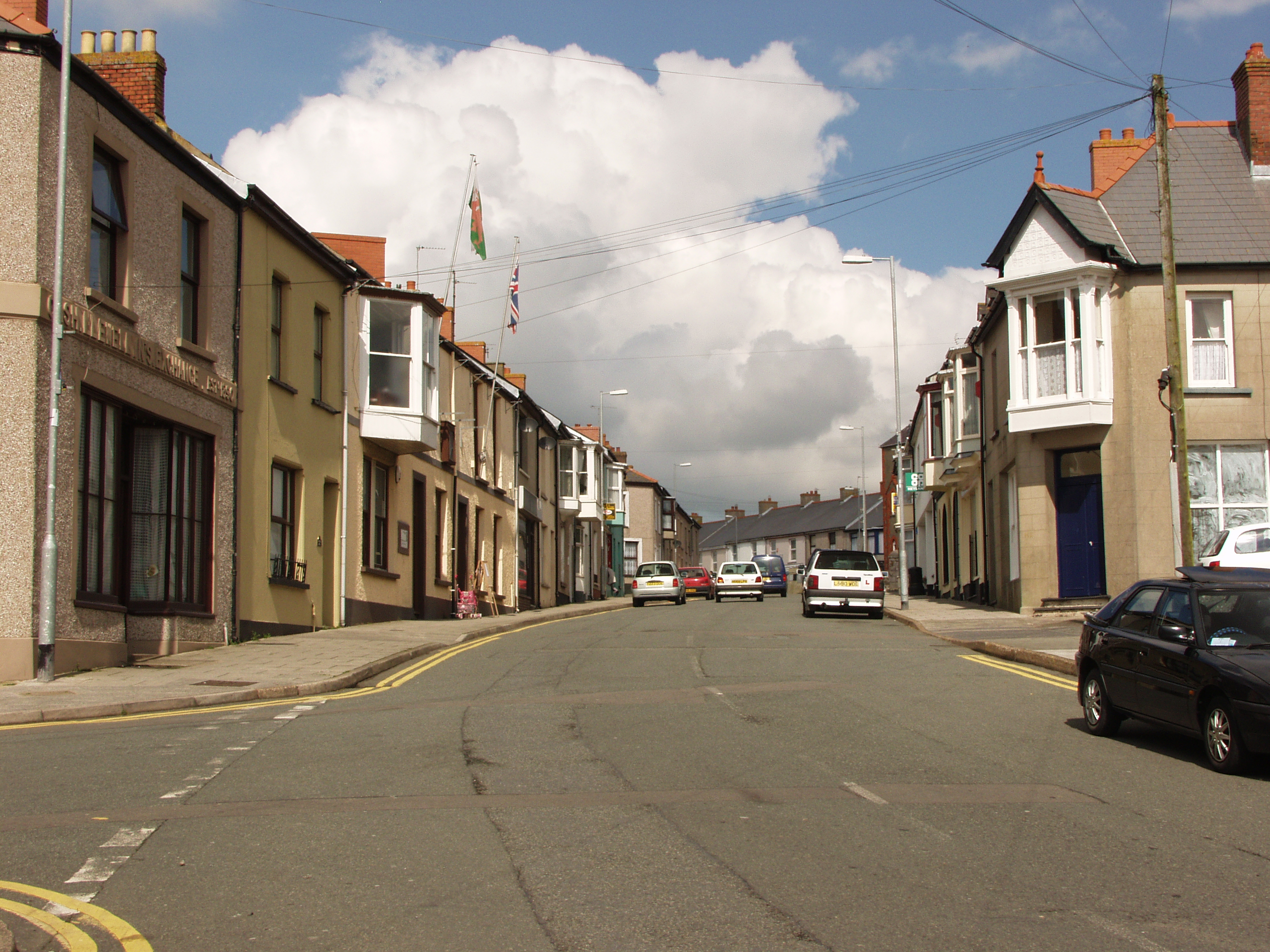 Town Hall and High Street, Neyland, Pembrokeshire